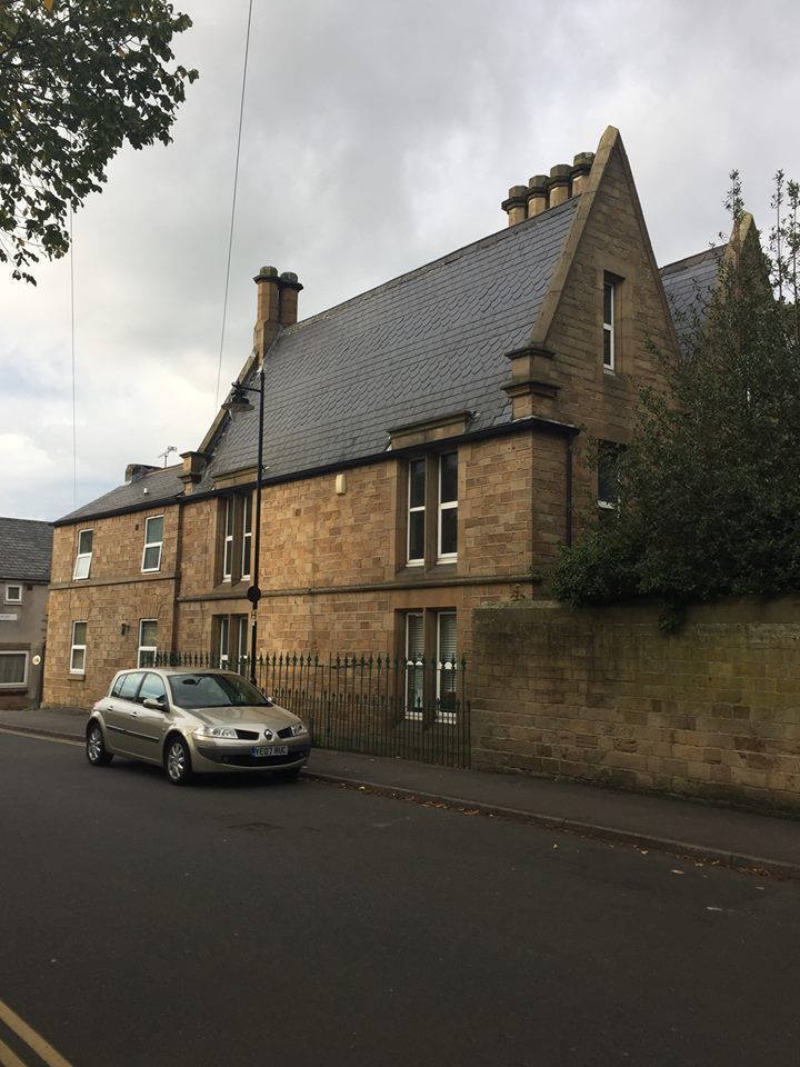 Hackenthorpe Hall, taken in September 2017